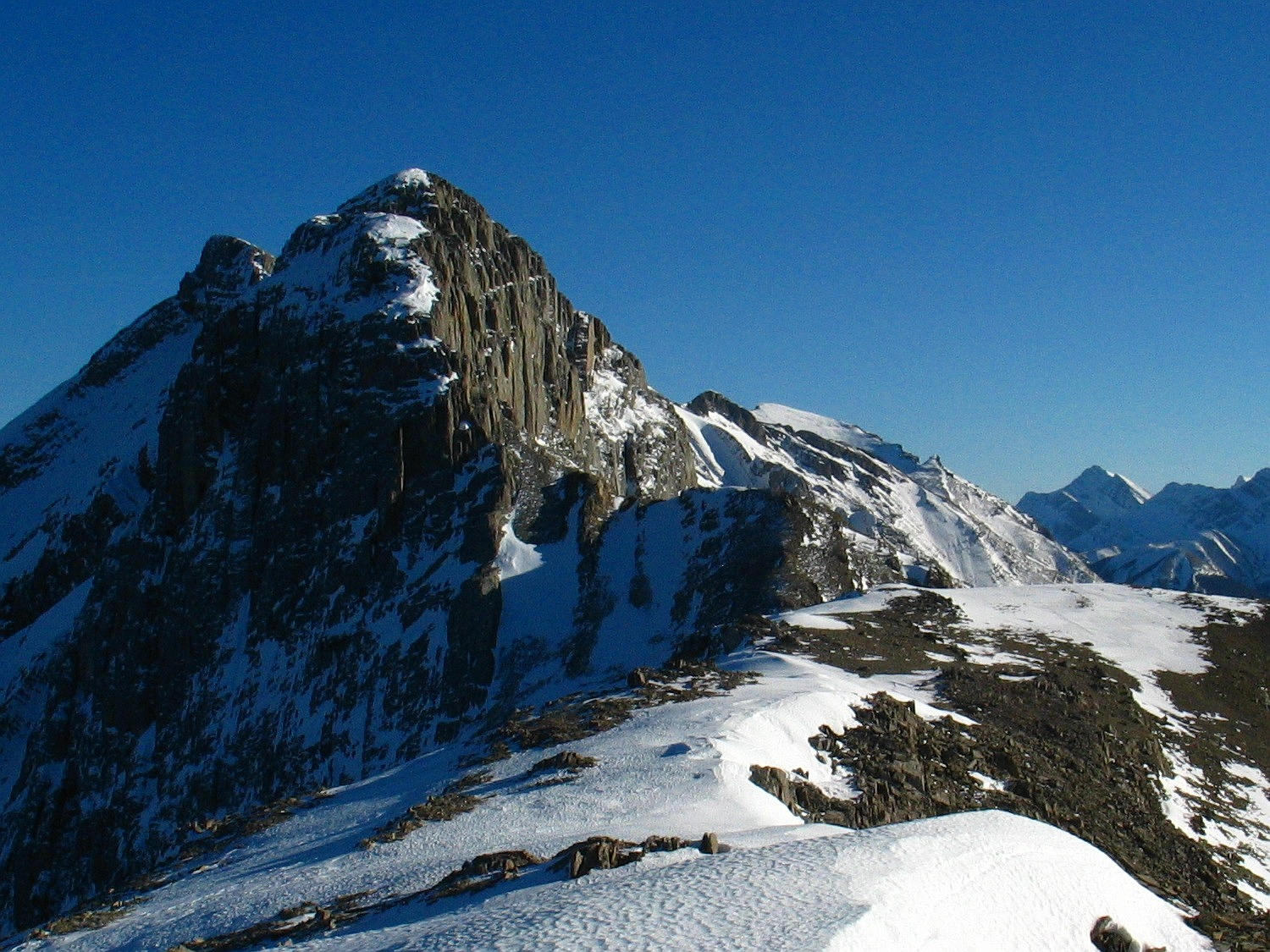 Roche Jacques, a mountain in the Jacques Range of Jasper National Park, Canada. Taken in February 2006 from the summit of Cinquefoil Mountain.